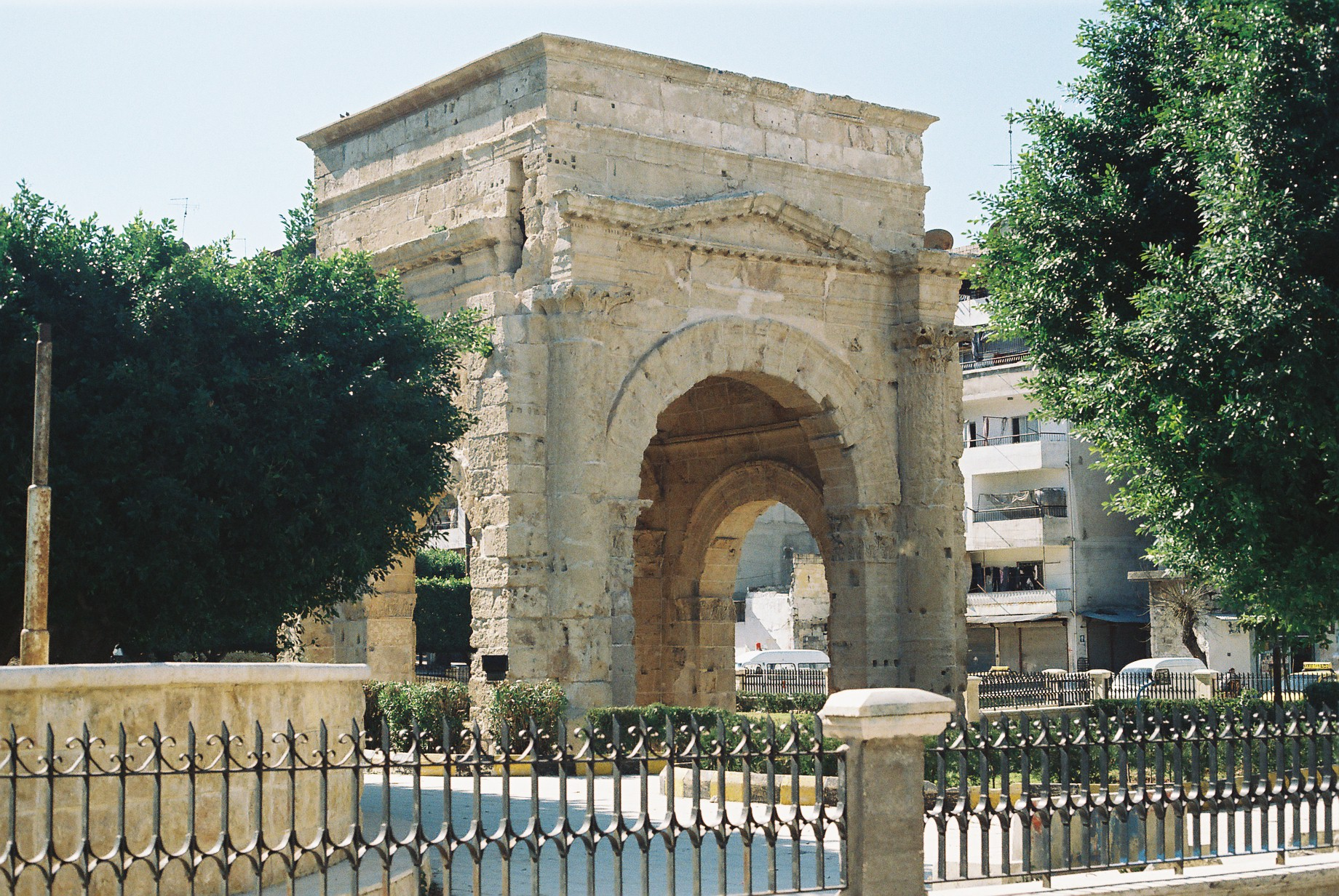 Ancient Roman Latakia Tetraporticus — a tetrapyla built by Septimius Severus in 193 CE. Located in the Saliba neighborhood of Latakia, northwestern Syria.